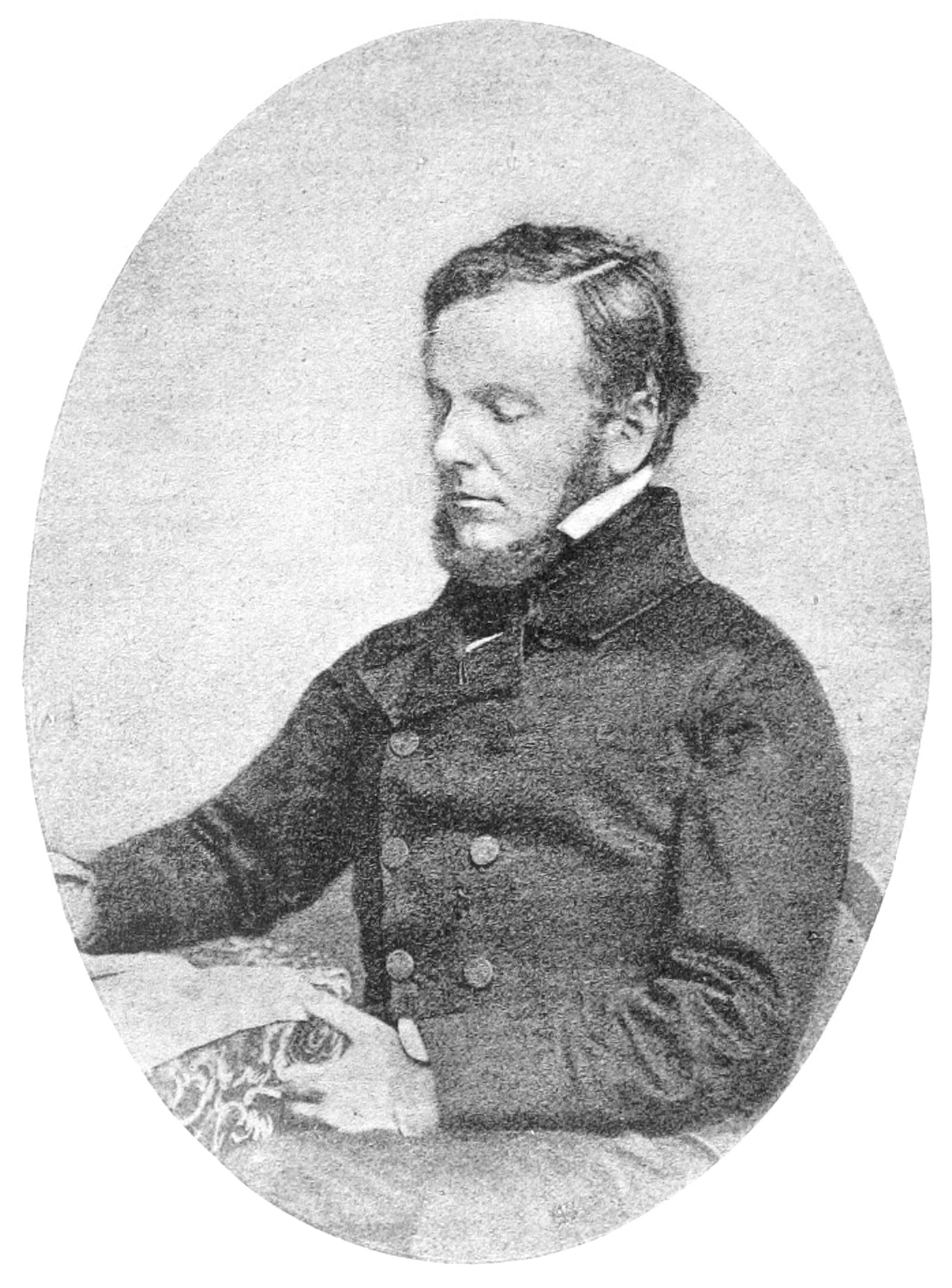 Francis Wharton (1820−1889), American legal writer, episcopal clergyman and educationalist